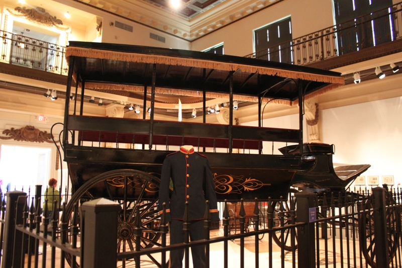 Carriage display in Missouri History Museum